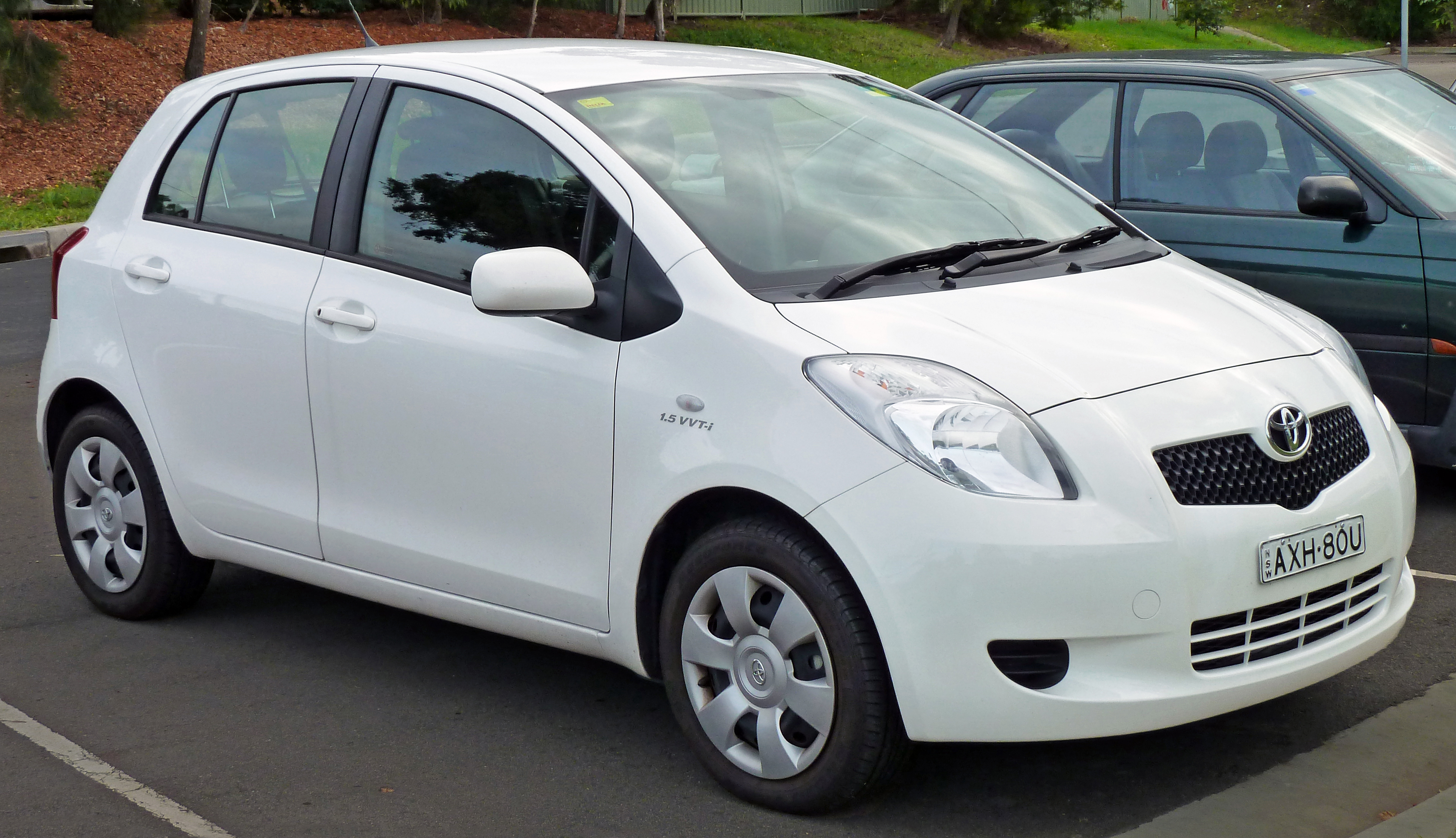 2006 Toyota Yaris (NCP91R) YRS 5-door hatchback. Photographed in Kirrawee, New South Wales, Australia.